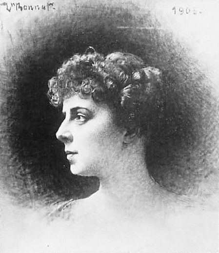 Emma Debussy (1862-1934, née Emma Moyse, also known as Emma Bardac from her first marriage) after a portrait by Léon Bonnat (1833-1922).